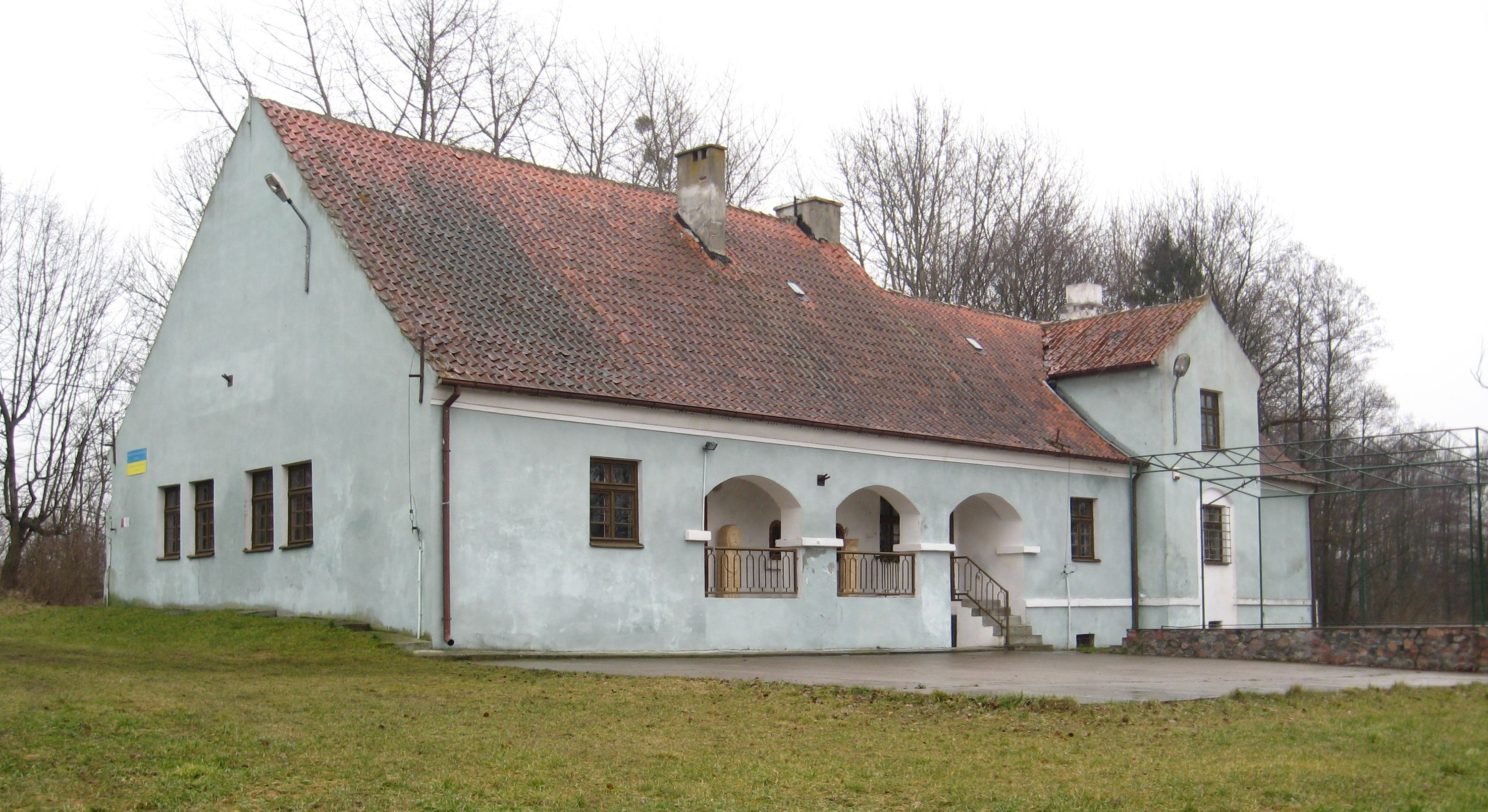 Asuny in Poland